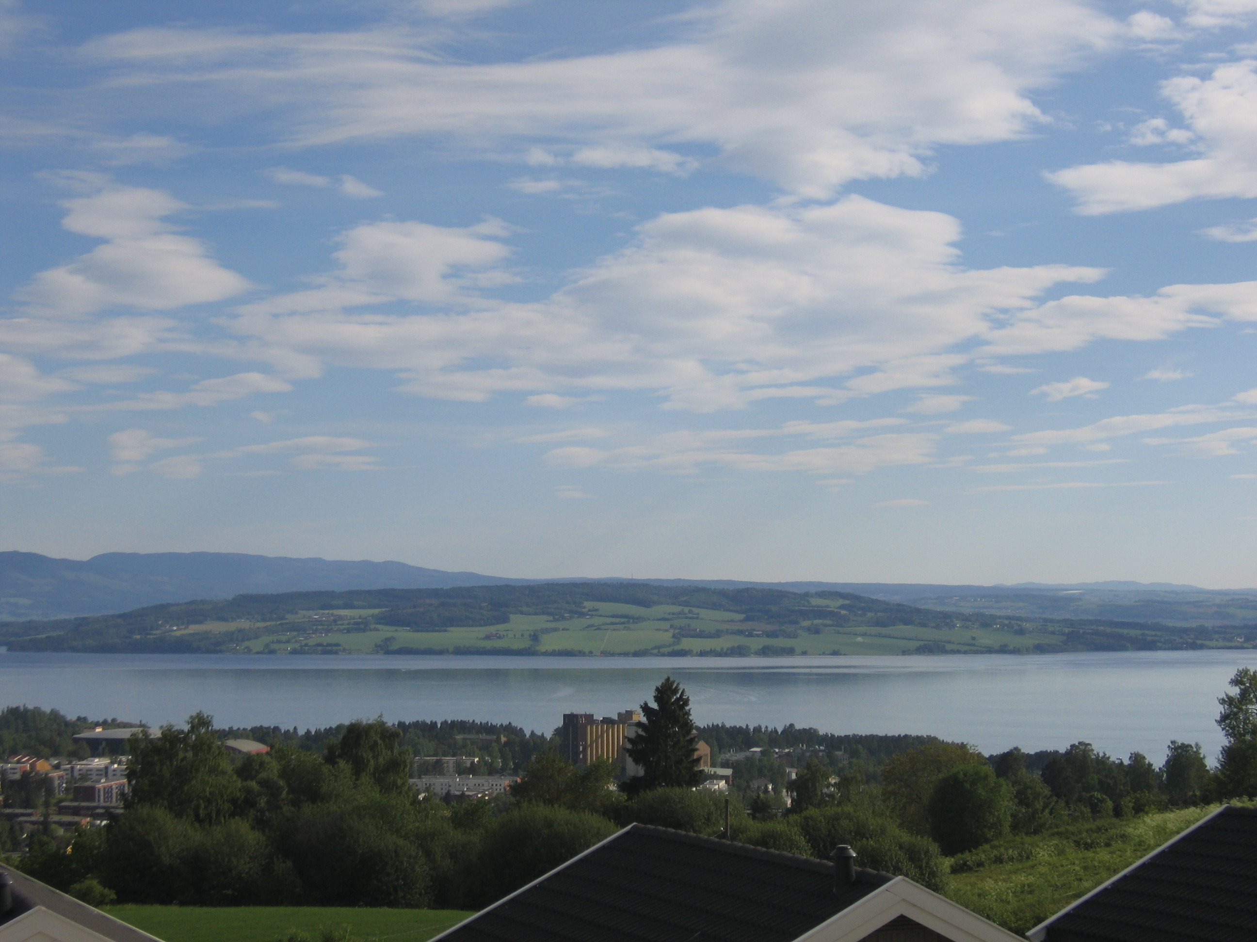 Westbound view over the island Helgøya in Lake Mjøsa, Norway. Shot taken from Hamar, Hedmark.